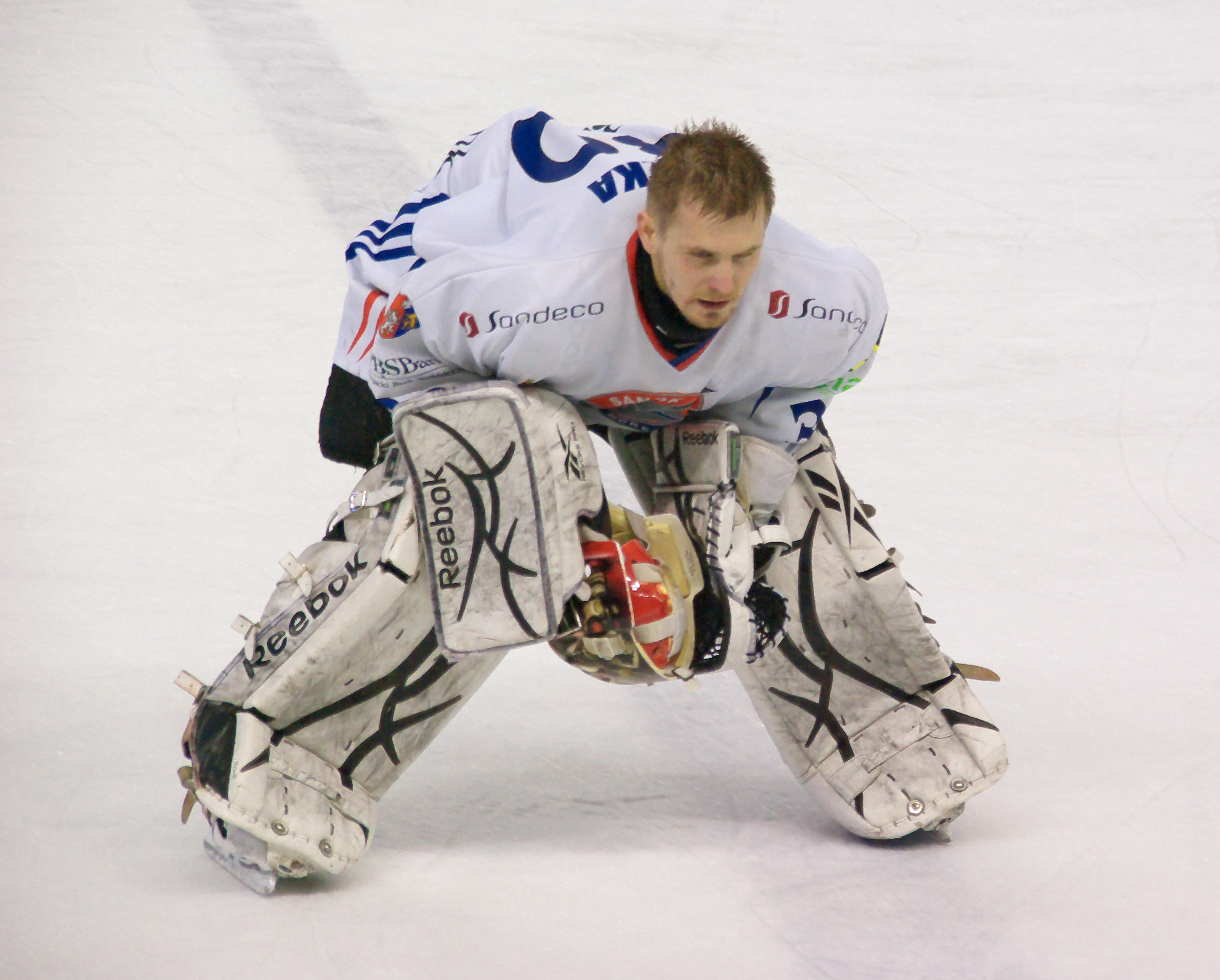 Marek Rączka during match KH Sanok - MMKS Podhale Nowy Targ 20.03.2011